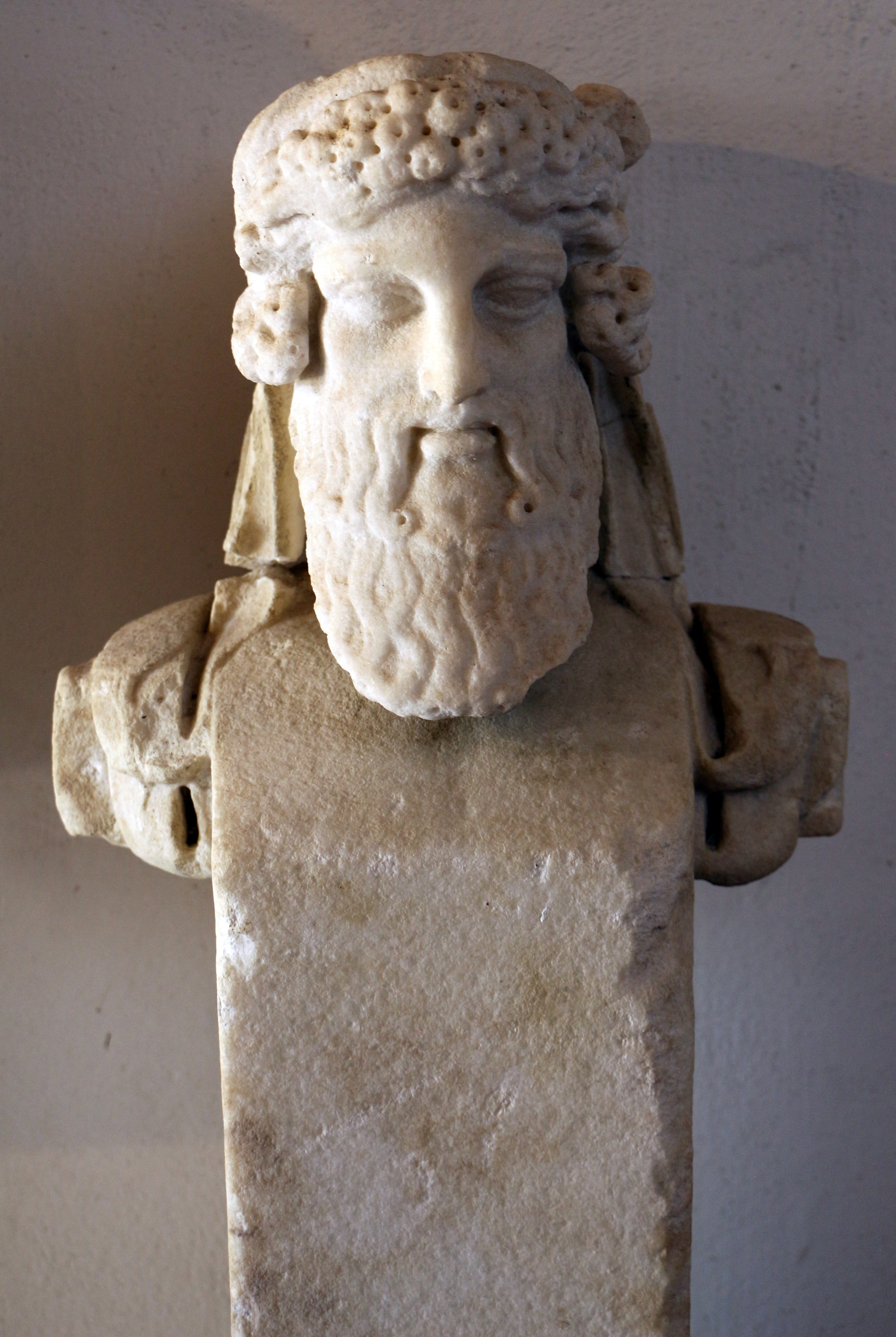 Collections of the Museo archeologico nazionale (Cosa)